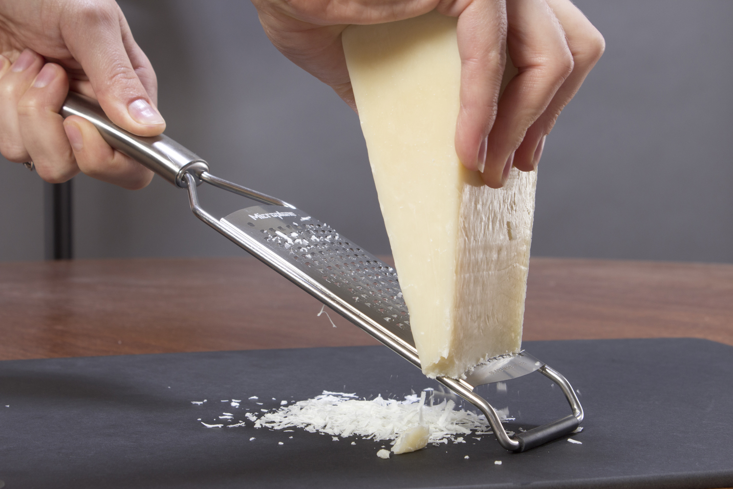 Fine Microplane Grating Hard Cheese